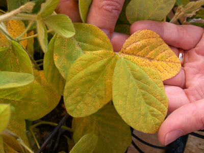 Advanced infection with soybean rust. Chlorotic soybean leaves with uredinia.